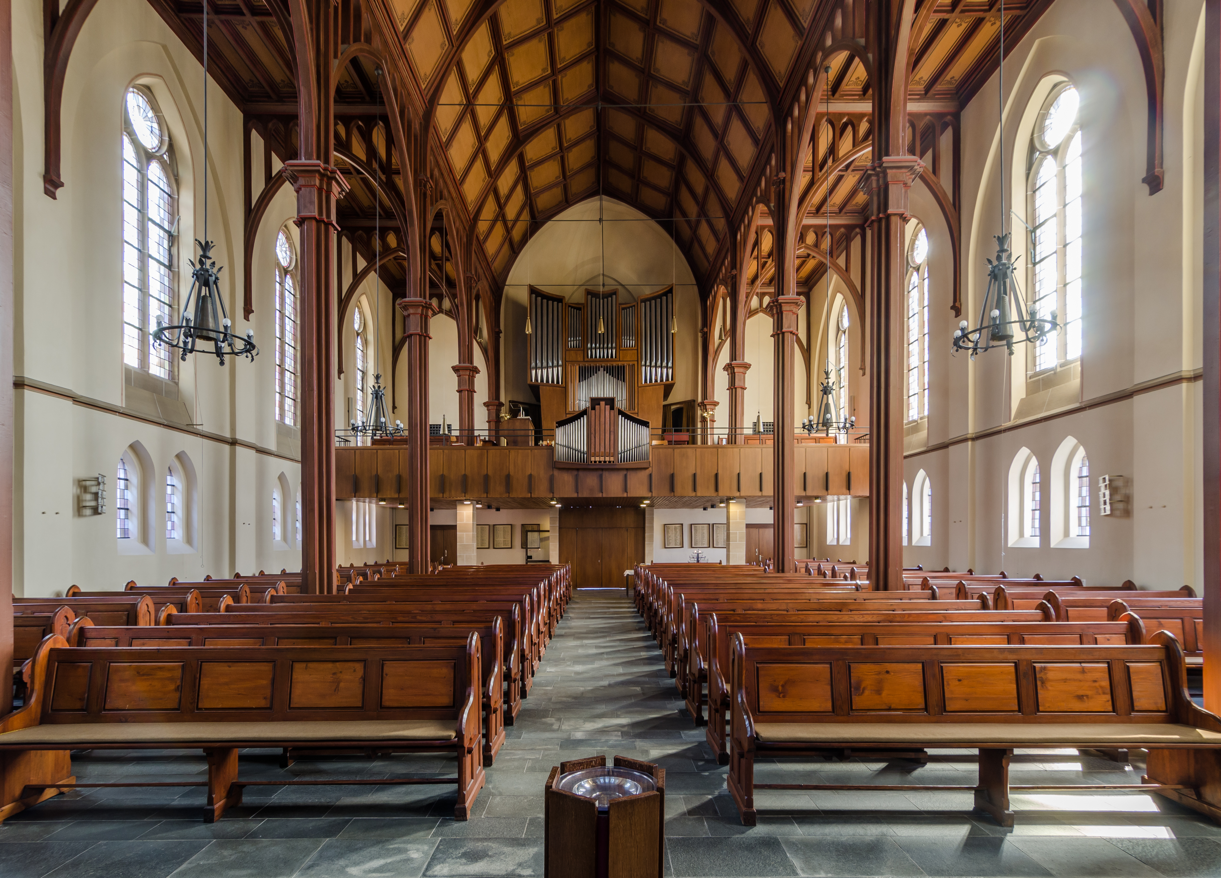 Mülheim (North Rhine-Westphalia, Germany) – district Speldorf – Protestant Luther Church – view through the nave from the choir